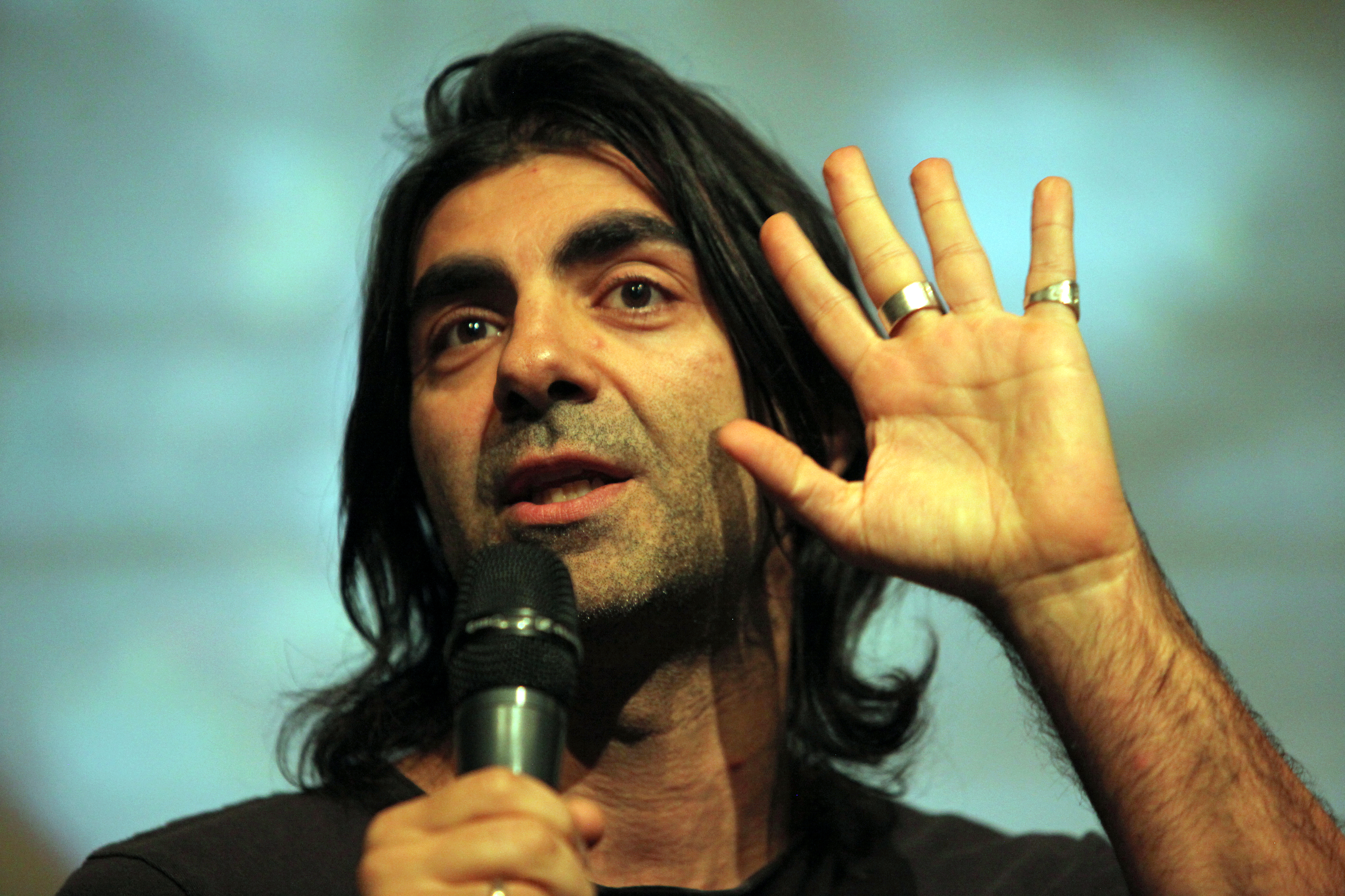 German-Turkish film director Fatih Akin at the Manaki Brothers Festival in Bitola, North Macedonia, on 17 September 2019.